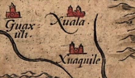 Detail of the Native American village of Joara (spelled "Xuala" on the map) and two neighboring villages in what is now North Carolina, in the southeastern United States, on Chiaves' 1584 map of La Florida. The map was drawn by Spanish royal cartographer Geronimo Chiaves, and was probably based on accounts by members of the Hernando De Soto expedition (1539-1543). The map was originally published in Abraham Ortelius' Theatrum Orbis Terrarum in 1584.